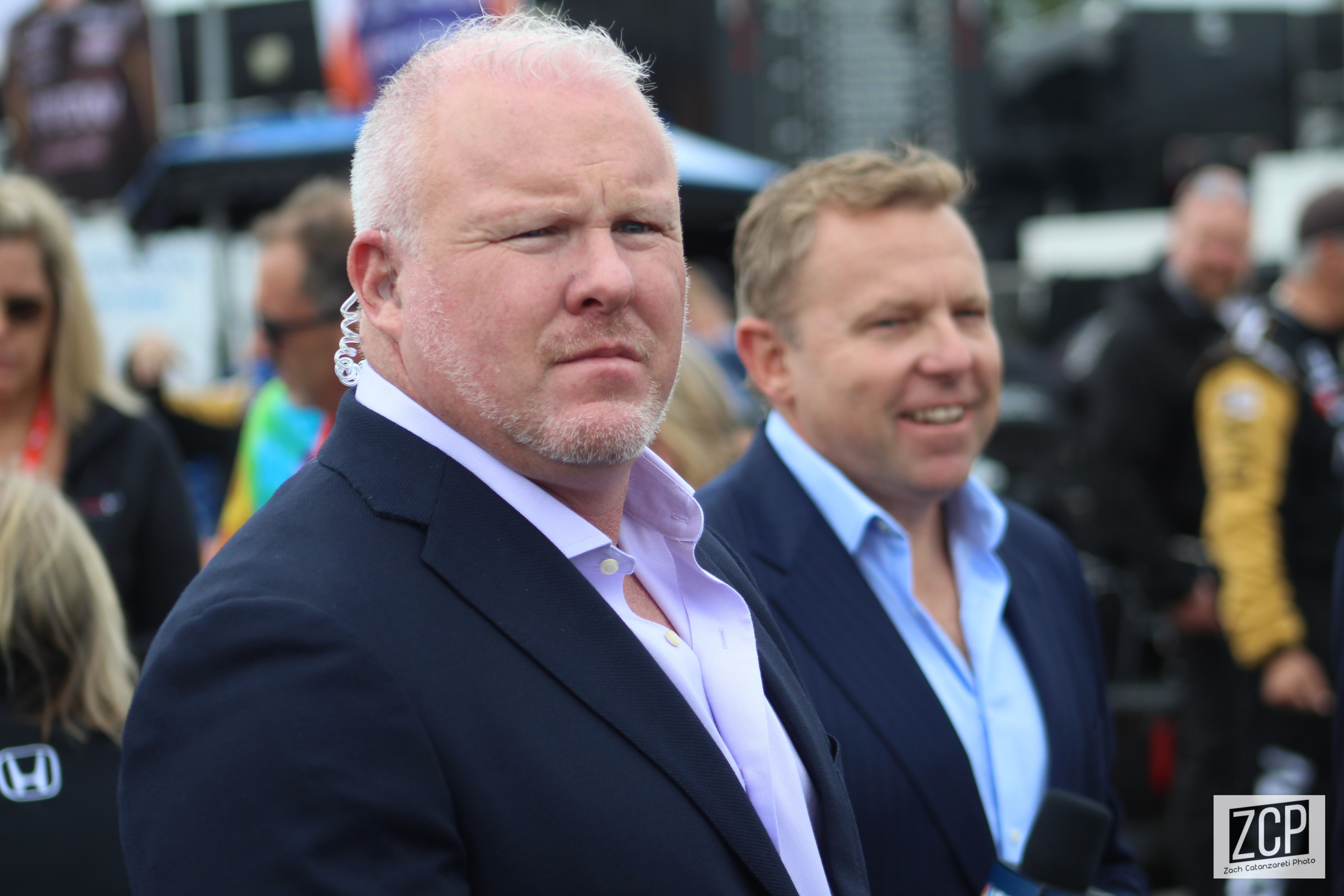 2018 ABC Supply 500 IndyCar race at Pocono Raceway